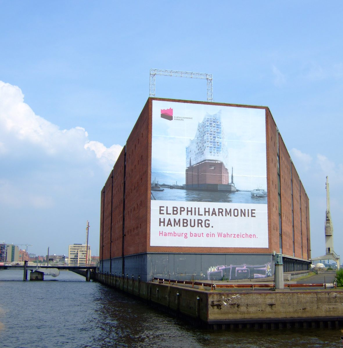 cropped from